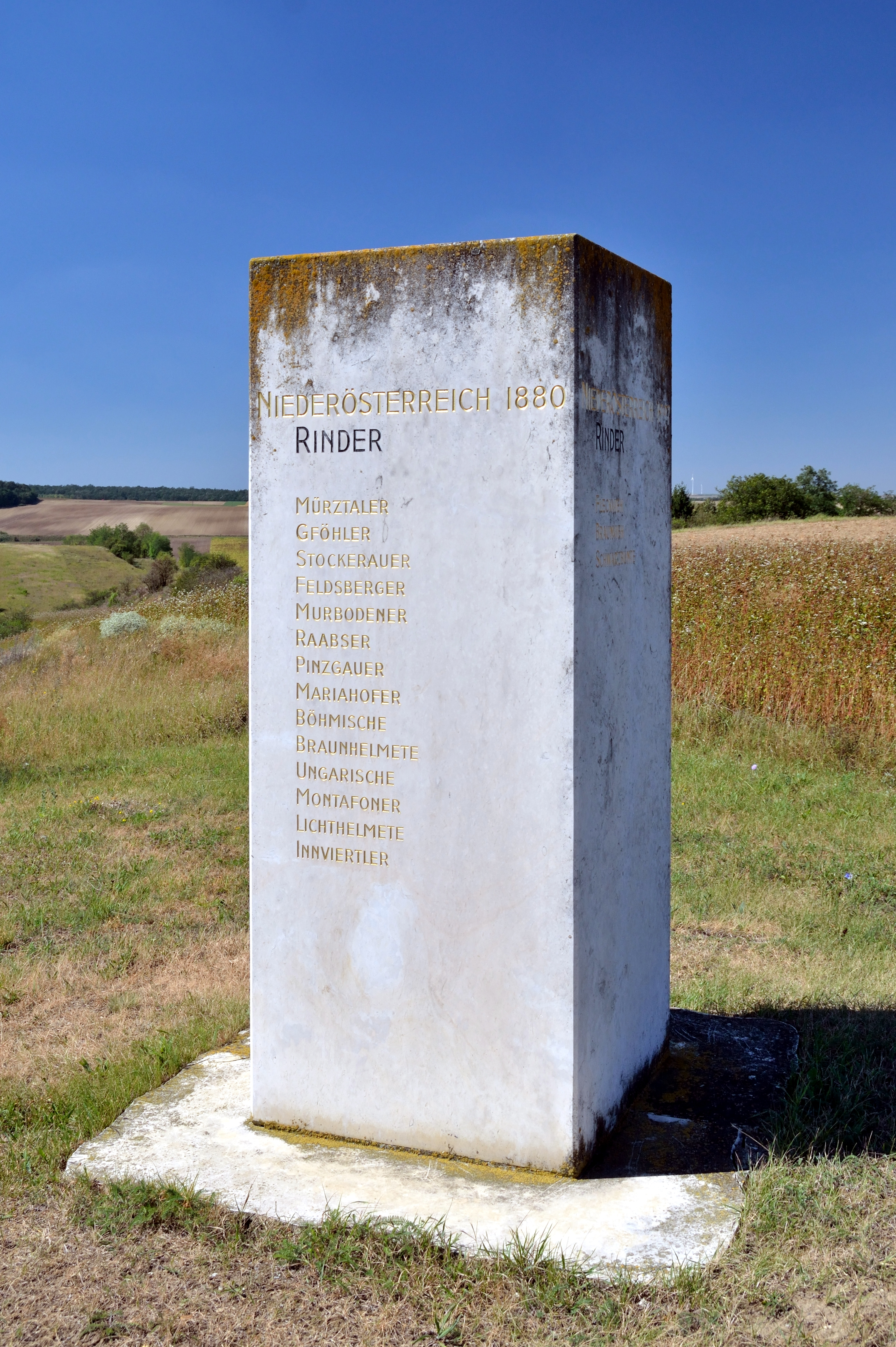 Ingeborg Strobl: Mahnmal für verlorengegangene Artenvielfalt 1997 (Memorial for lost diversity of species), kulturlandschaft paasdorf, Mistelbach, Lower Austria.